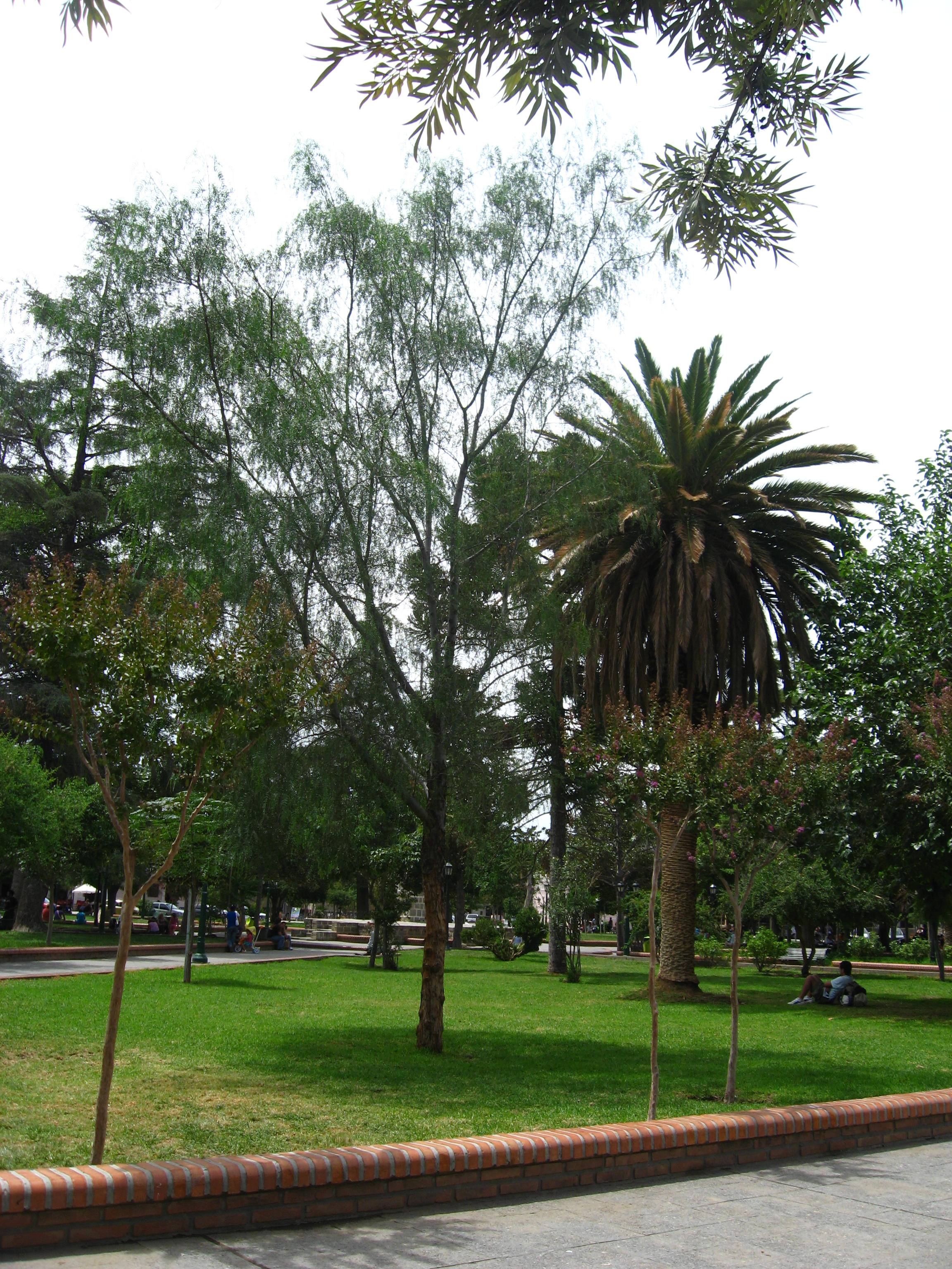 A view of Cafayate's Square